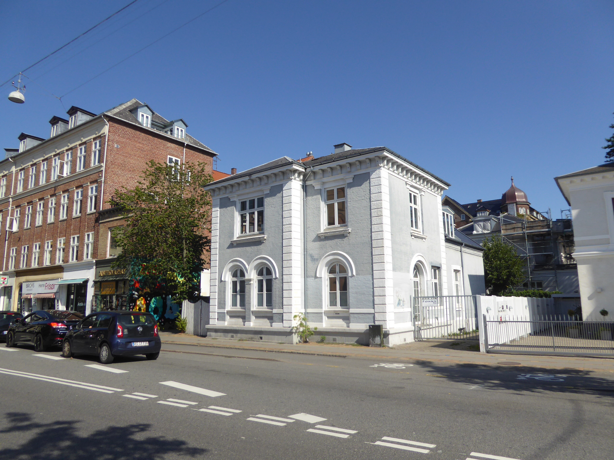 Villa at Alhambravej in Frederiksberg in Copenhagen.